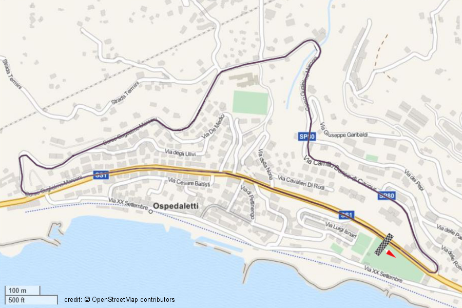 Grand Prix / Formula One Circuit Ospedaletti-1948 (openstreetmaps)